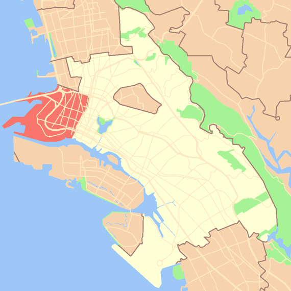 Map showing the location of West Oakland in the city of Oakland, California. Created by User:Nogood using U.S. Census Bureau data.